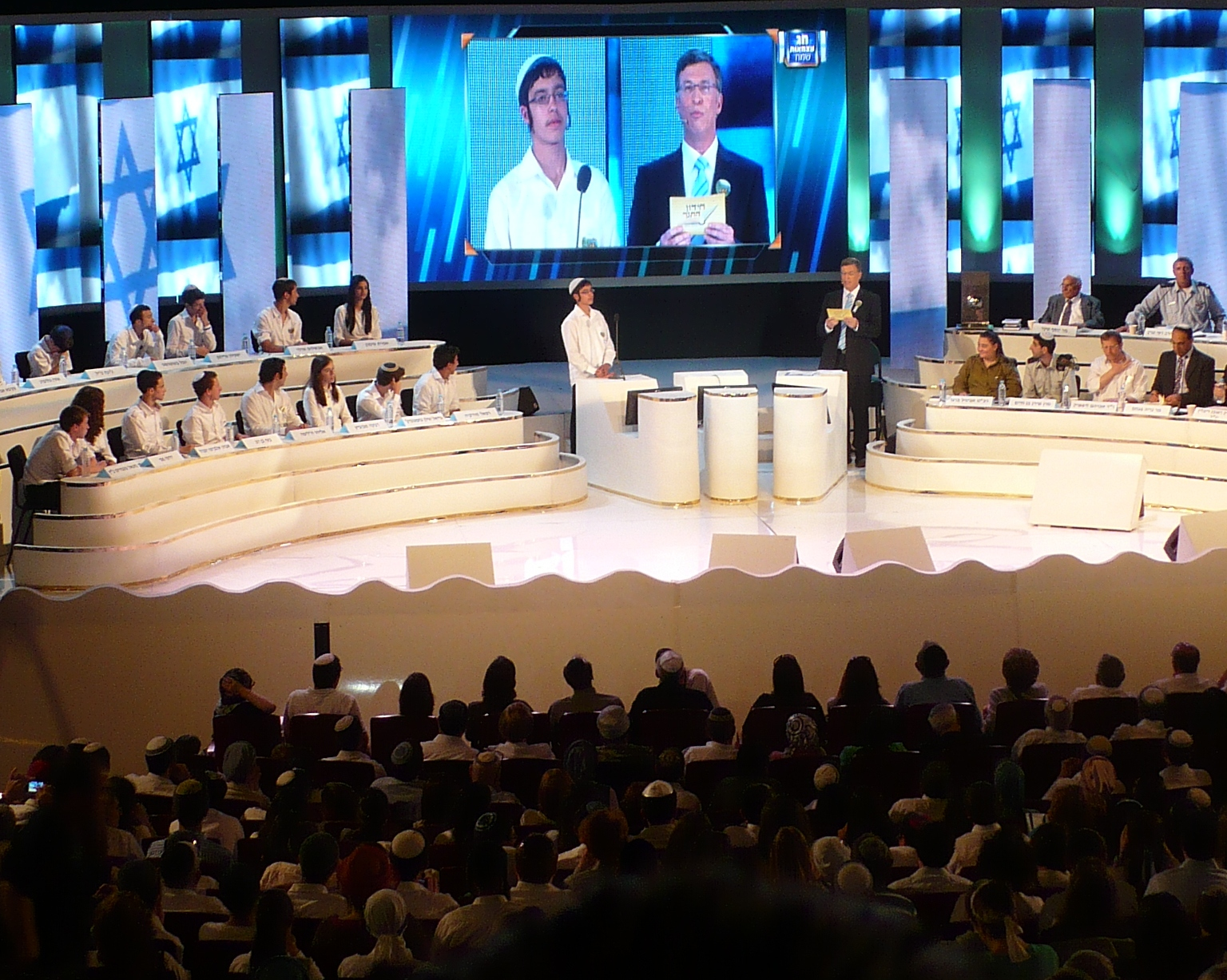 International Youth bible quiz 2012